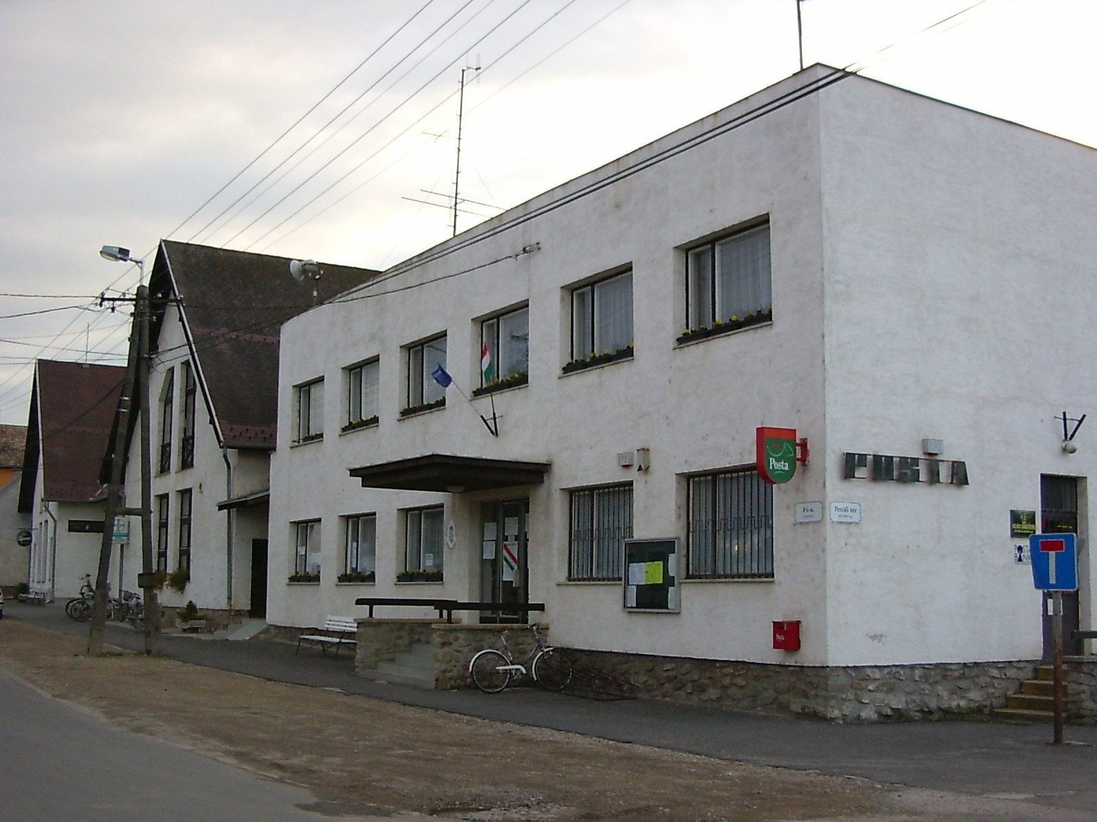 Village hall and post office in Kópháza